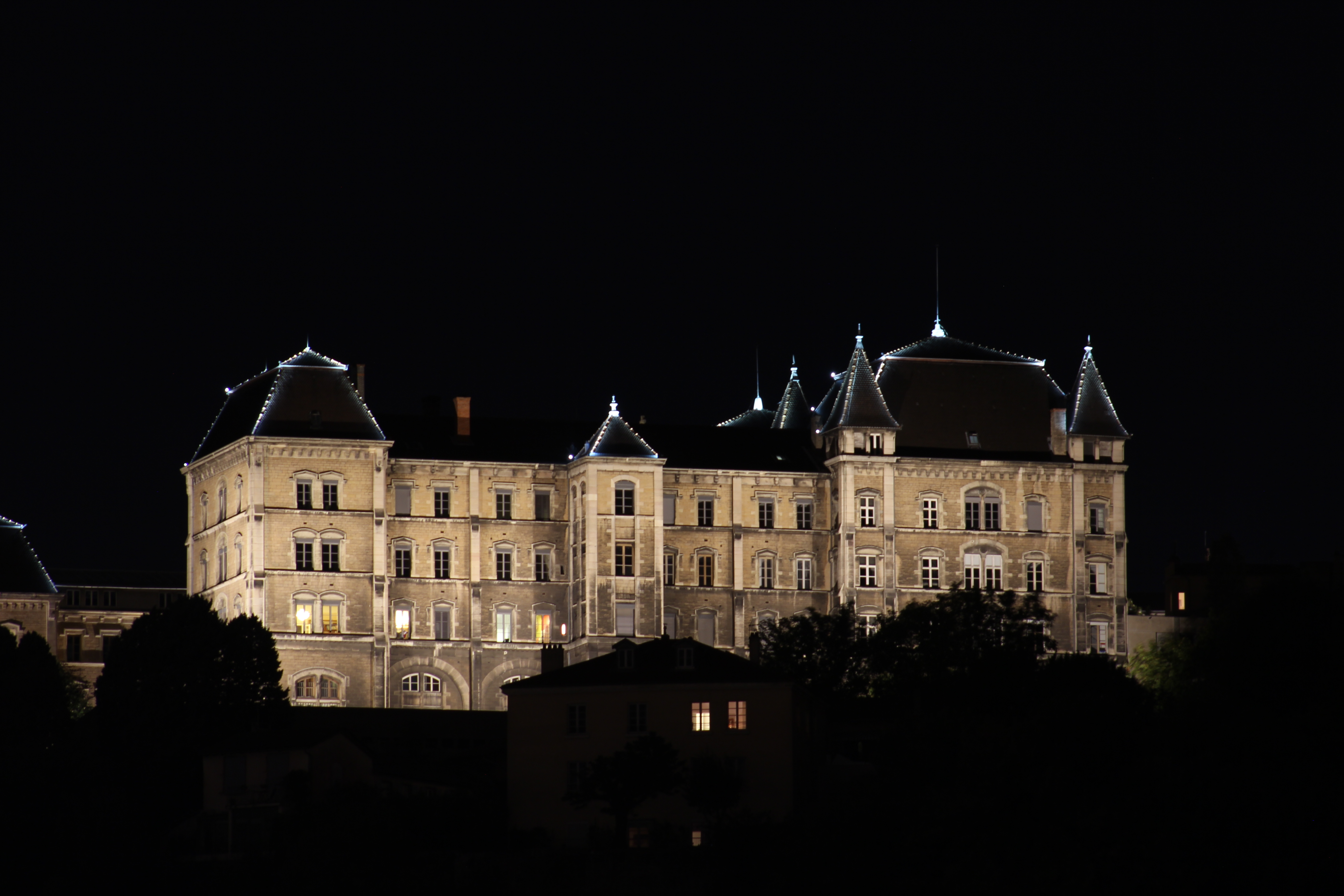 Lycée Saint-Just in Lyon, by night.